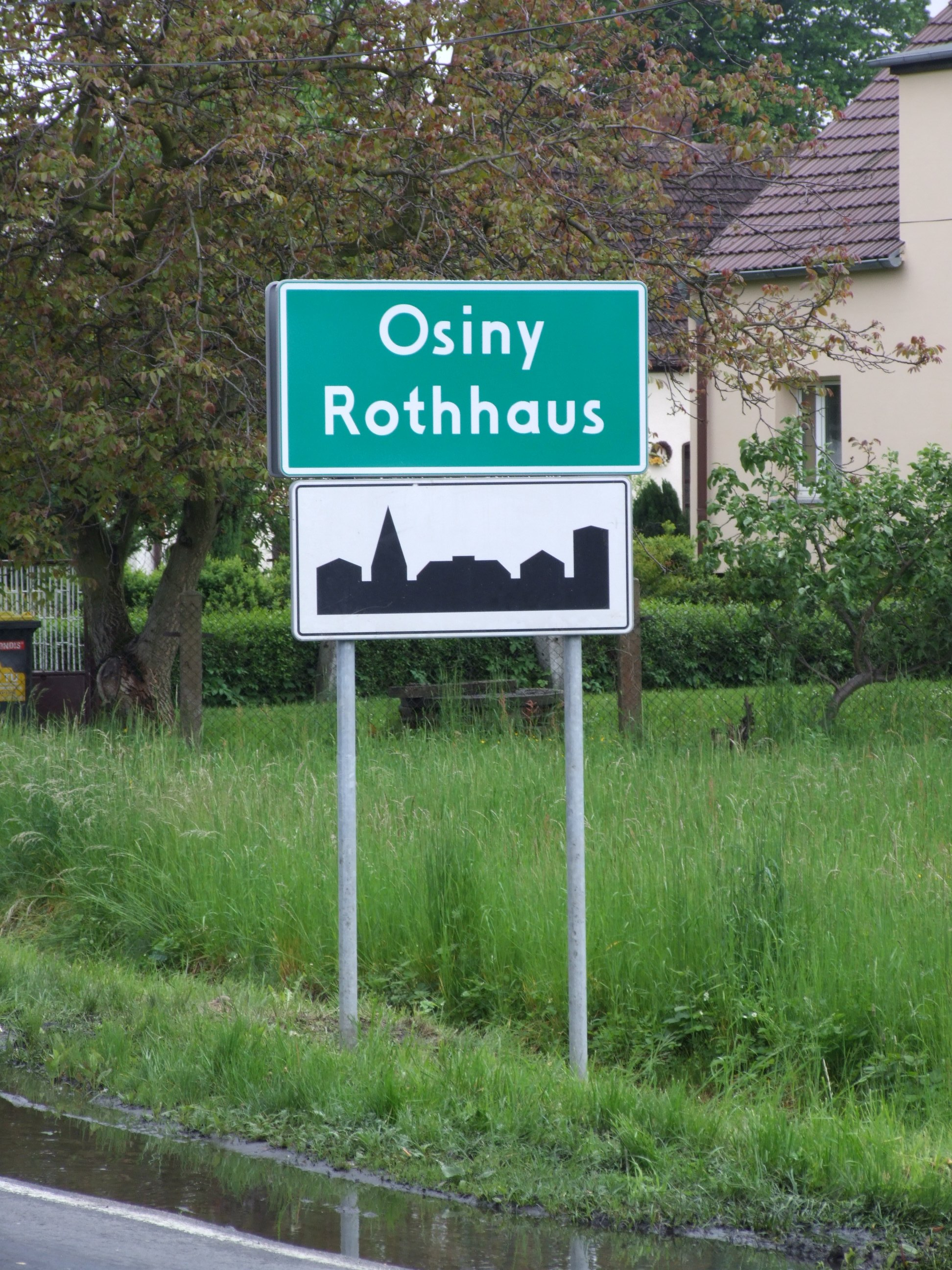 Polish-german city limit in Osiny/Rothhaus, Upper Silesia